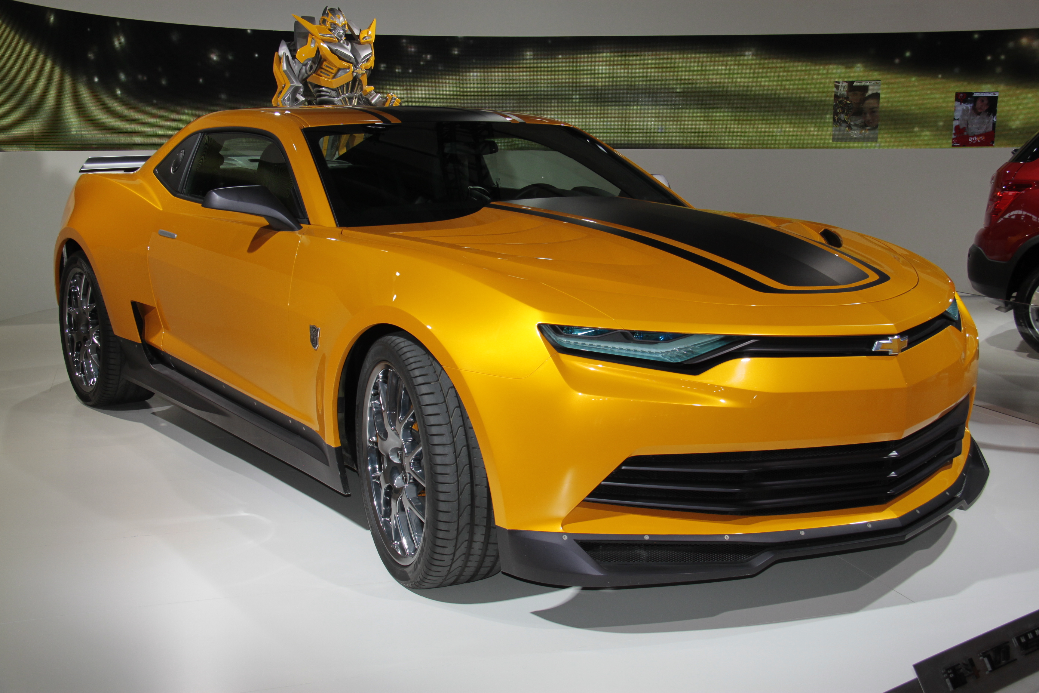 Chevrolet Camaro Concept 2014 at Auto China 2014 (Beijing)